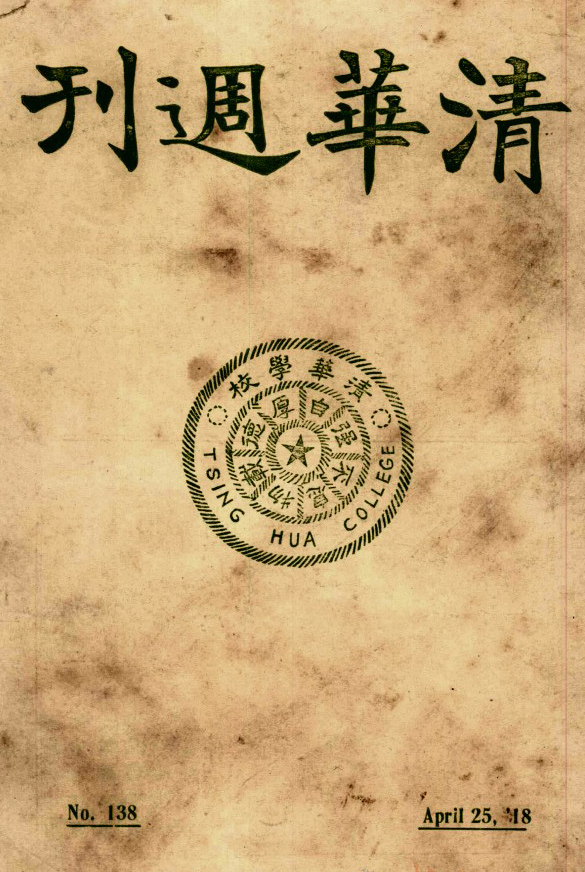 The Cover of Tsing Hua Weekly, 1934-04-25